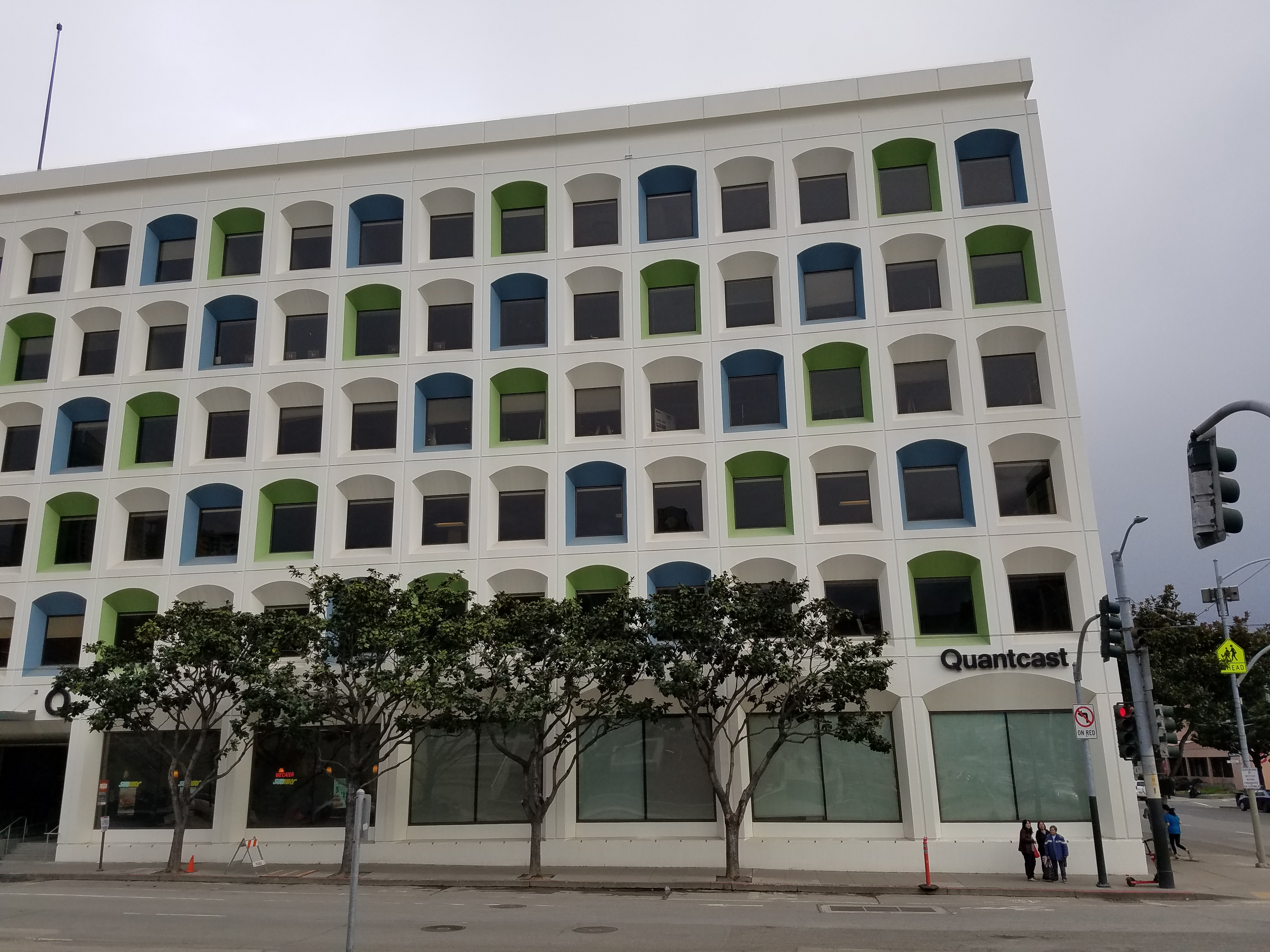 Quantcast office building at the corner of Folsom Street and 4th Street, San Francisco, California, USA. (Partial view, seen across Folsom Street)